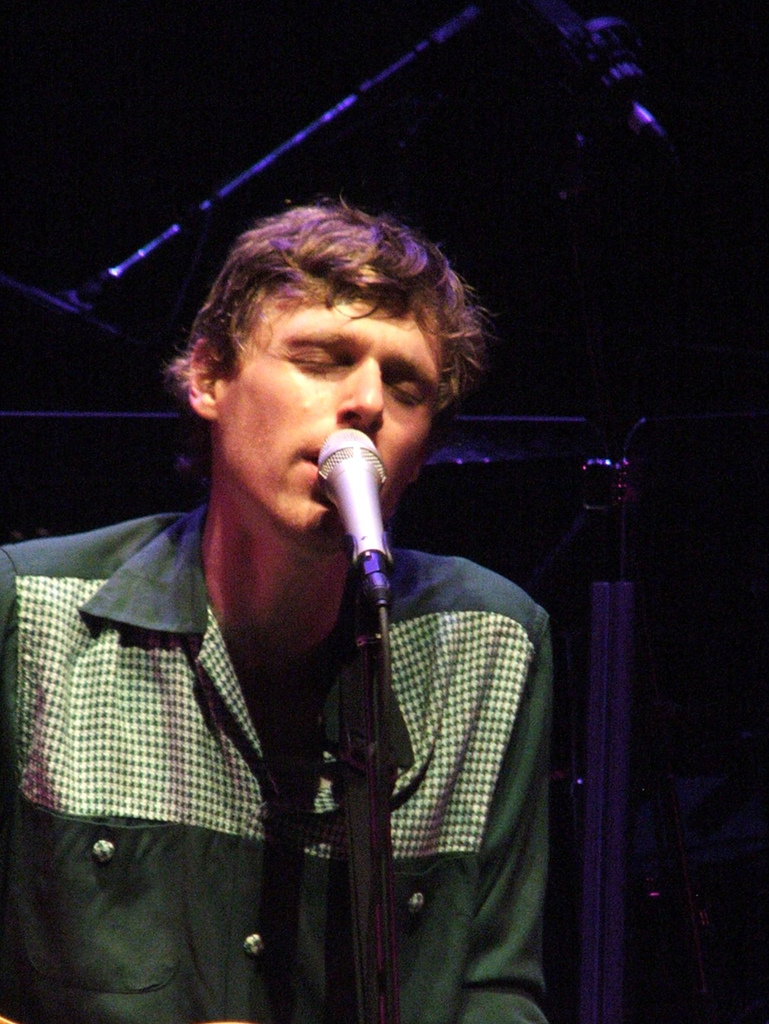 Joel Plaskett performing at the 2007 Ottawa Bluesfest